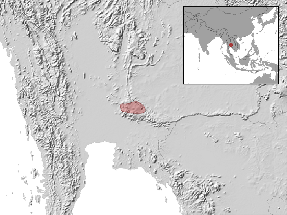 geographic distribution of Lygosoma koratense